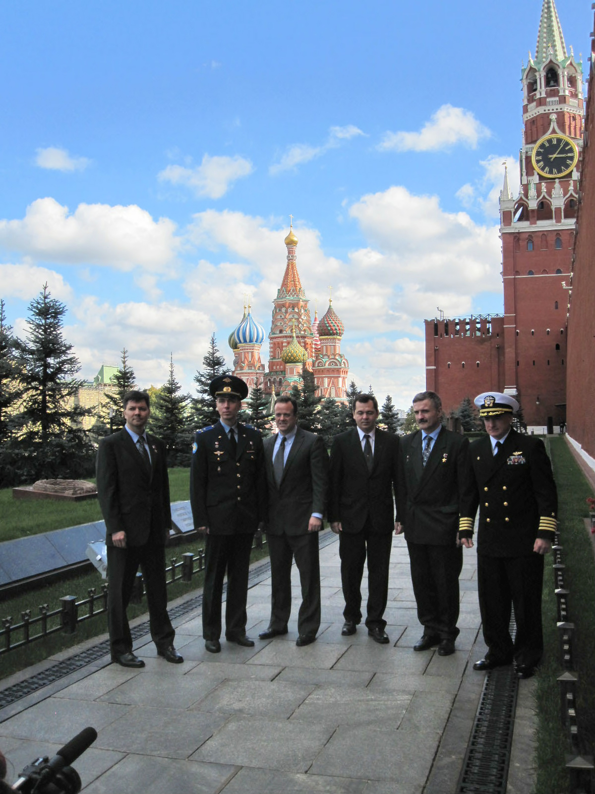 With St. Basil's Cathedral serving as a panoramic backdrop, the prime and backup crew members for Expedition 25 to the International Space Station pose for pictures at the Kremlin Wall in Moscow Sept. 17, 2010. From left to right are Expedition 25 backup flight engineer Oleg Kononenko, backup Soyuz commander Sergei Volkov, backup NASA flight engineer Ron Garan, prime Expedition 25 flight engineer Oleg Skripochka, Soyuz commander Alexander Kaleri and NASA flight engineer Scott Kelly. Kaleri, Kelly and Skripochka will launch Oct. 8 (Kazakhstan time) from the Baikonur Cosmodrome in Kazakhstan in the Soyuz TMA-01M spacecraft for a 5 ½ month stay on the station.